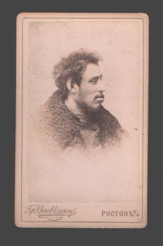 Photograph of Станисла́в Гу́ставович Струми́лин (Струми́лло-Петрашке́вич), Rostov-on-Don, Russia